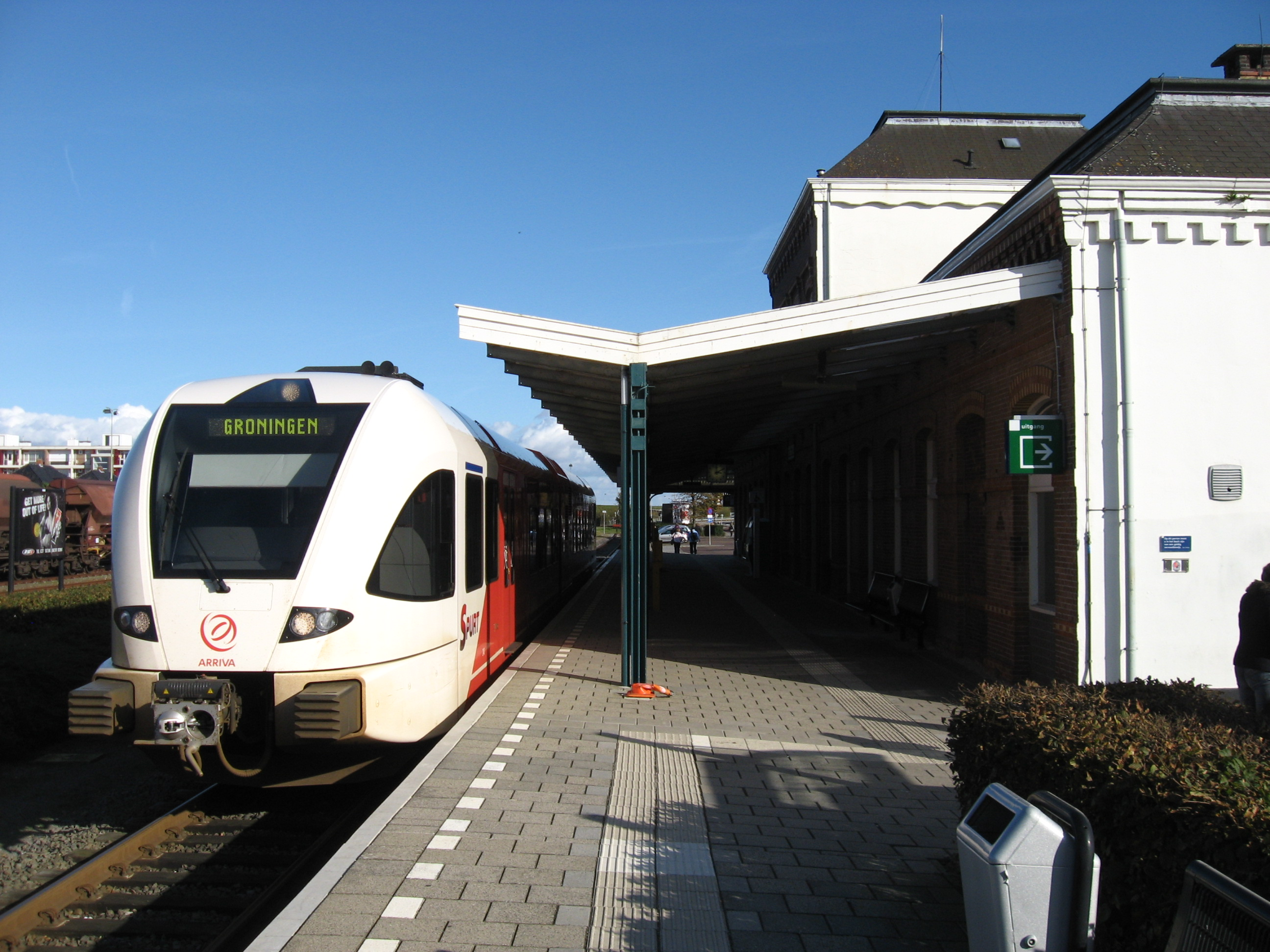 Arriva train at its terminus in Delfzijl station